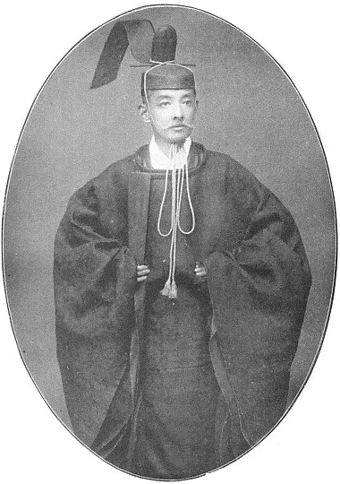 Yasunaga Miyake